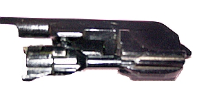 The gas piston and bolt assembly for the saiga-12 shotgun. Note how the rotating lugs are separate from the bolt-face and extractor assembly.